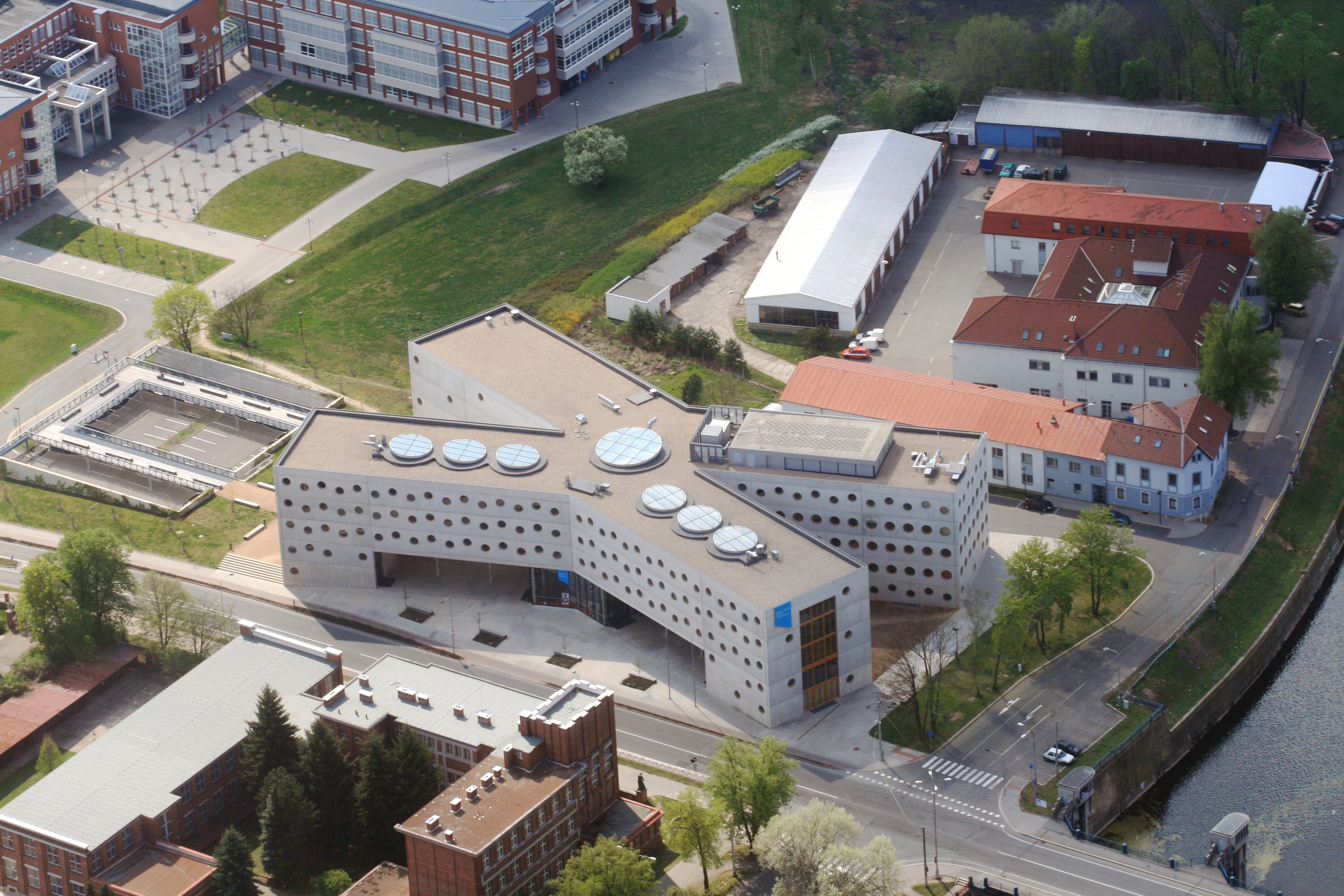 Study and Research Library Hradec Králové from air, eastern Bohemia, Czech Republic